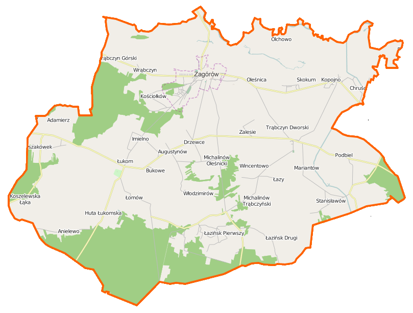 Map of Gmina Zagórów, Poland This map of Zagórów (gmina) was created from OpenStreetMap project data, collected by the community. This map may be incomplete, and may contain errors. Don't rely solely on it for navigation. Border coordinates52.199417.7608←↕→18.038552.0700